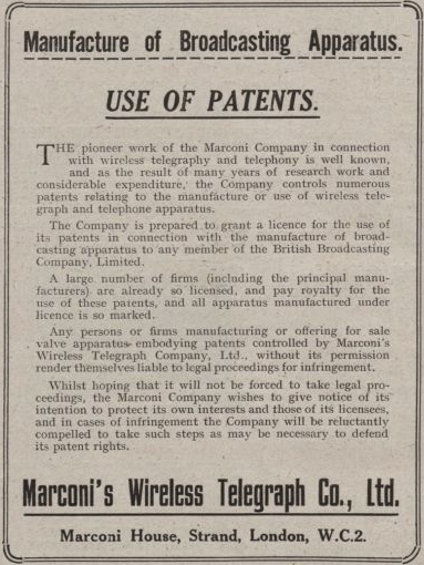 The Radio Times - 1923-10-26 - page 168